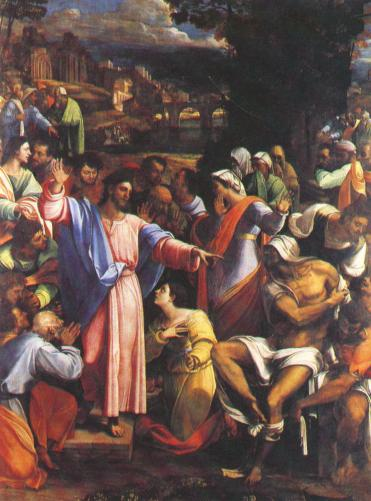 The Raising of Lazarus